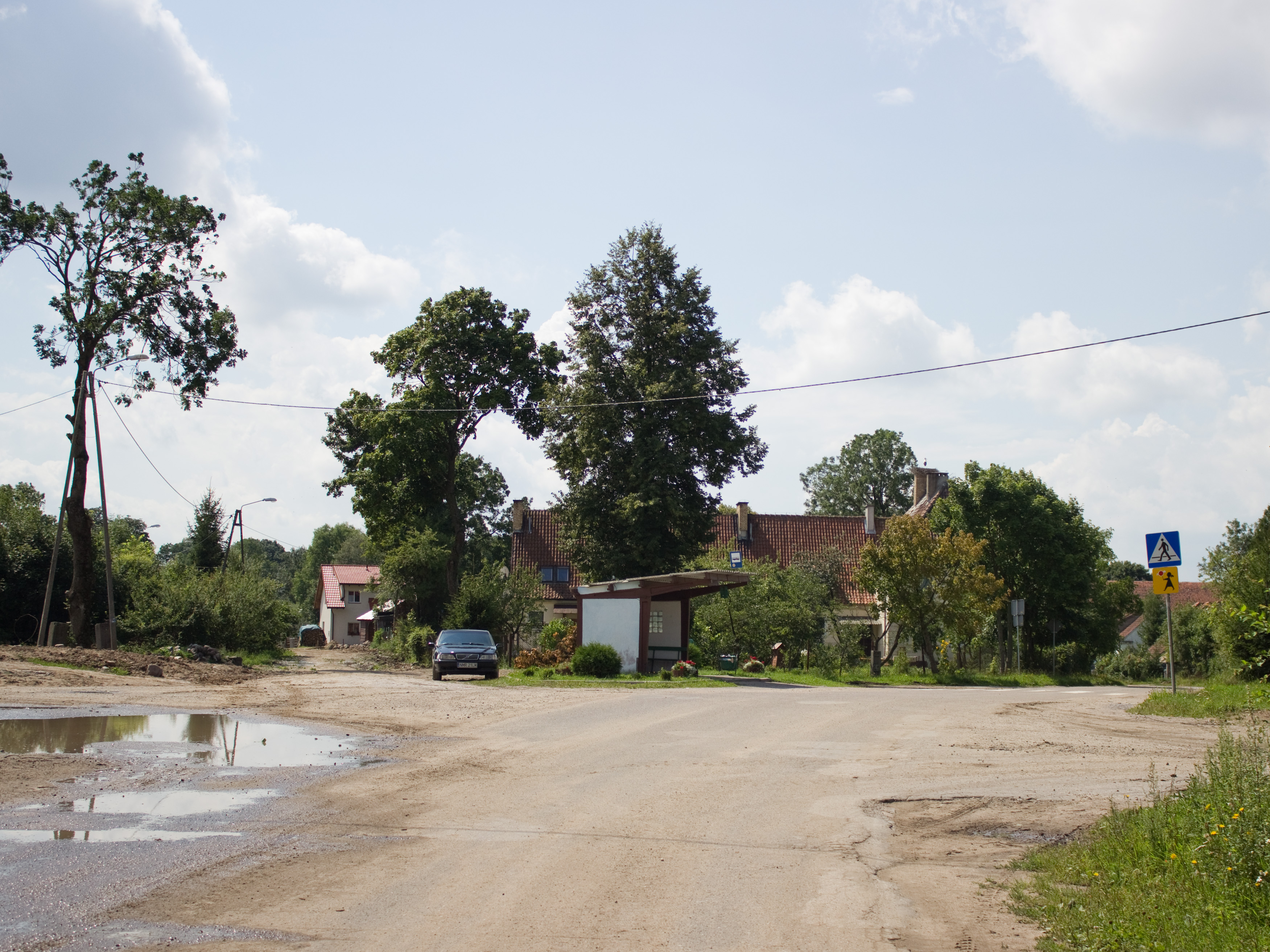 Wyszembork, gmina Mrągowo, powiat mrągowski, Warmian-Masurian Voivodeship